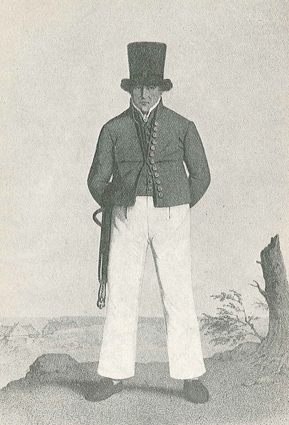 Traditionally dressed peasant from the hundred of Skytt in Scania in southern Sweden. Lithograph by Otto Wallgren.